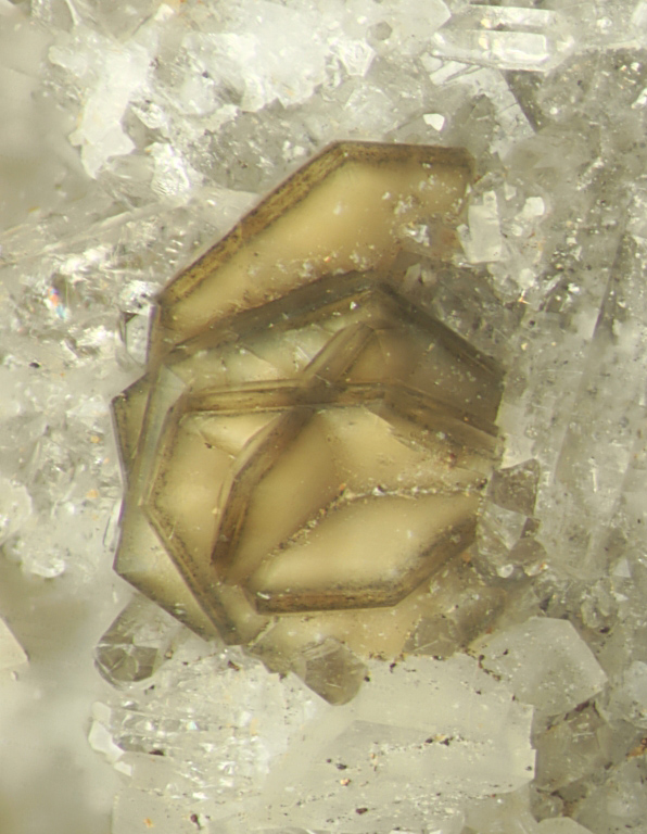 Gmelinite-Na (FOV 2.2 x 2.9 mm) Locality: Poudrette quarry (Demix quarry; Uni-Mix quarry; Desourdy quarry; Carrière Mont Saint-Hilaire), Mont Saint-Hilaire, Rouville RCM, Montérégie, Québec, Canada Via Jean-Pierre Beckerich (1998) MOB coll. As of September 2007, gmelinite-Na is the only gmelinite species found at MSH. It is associated with colorless quartz and dolomite in a hornfels seam.